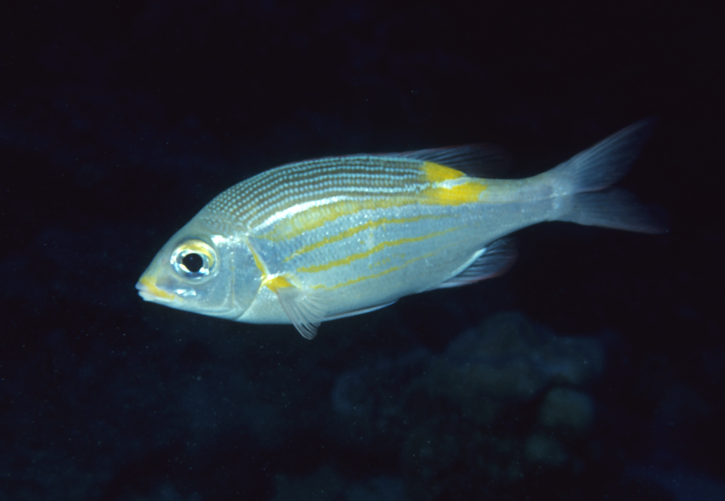 One Tree Reef. Striped large-eye bream (Gnathodentex aureolineatus).